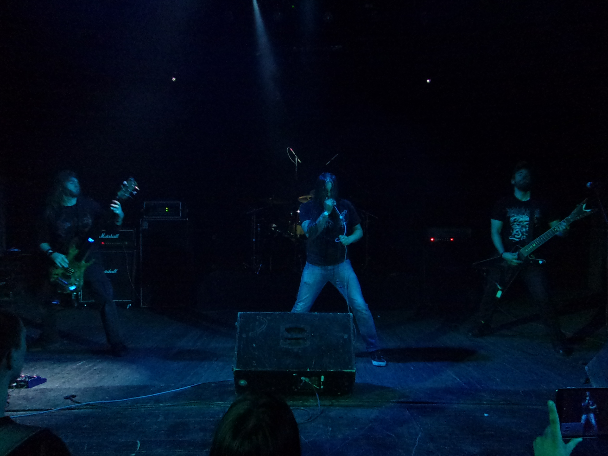 Texas band Devourment performing live at Opera Concert Club, Saint Petersburg. Left to right: Dave Spencer, Ruben Rosas, Chris Andrews.